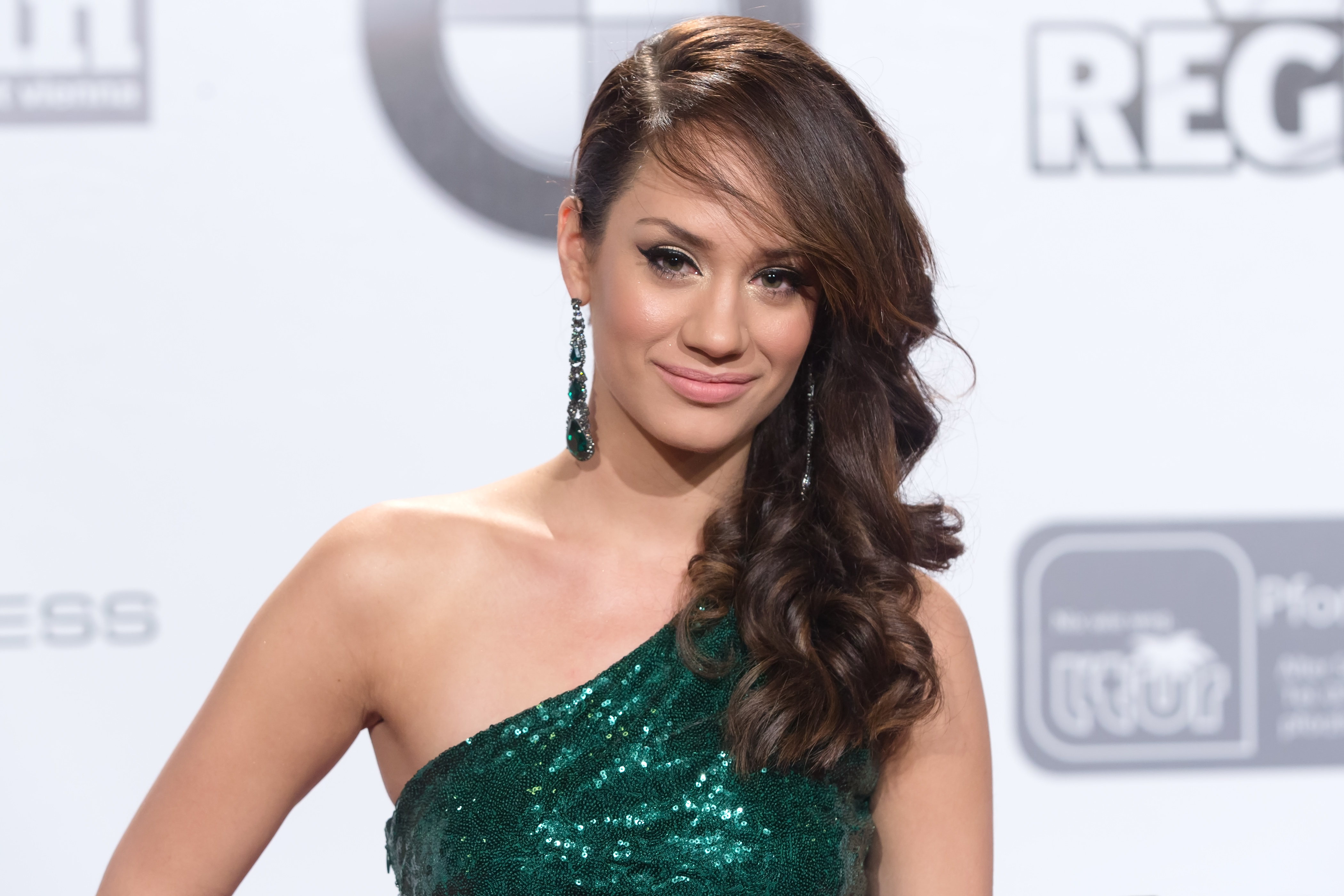 Sasa Schwarzjirg on the red carpet of the Filmball Vienna at Rathaus, Vienna, Austria.